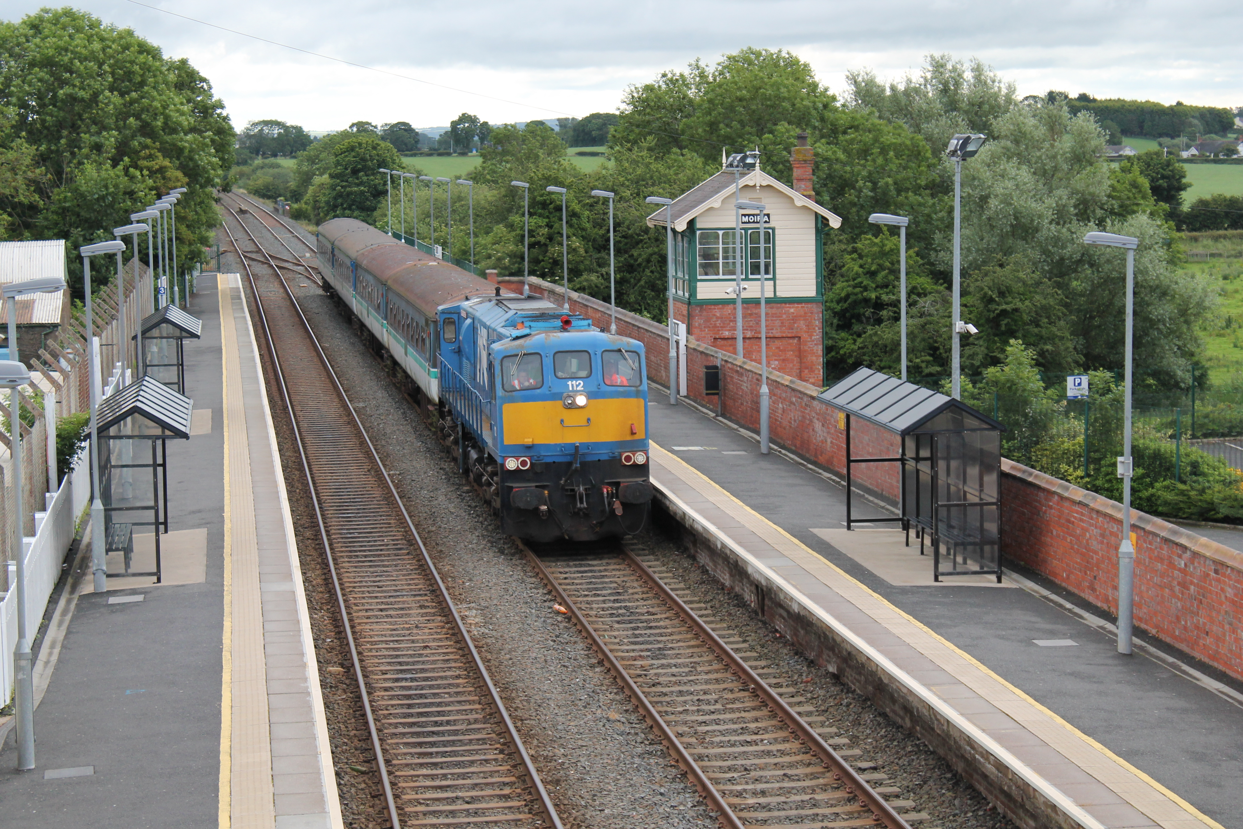 112 With 4 Gatwicks at Moira, bound for Dundalk.